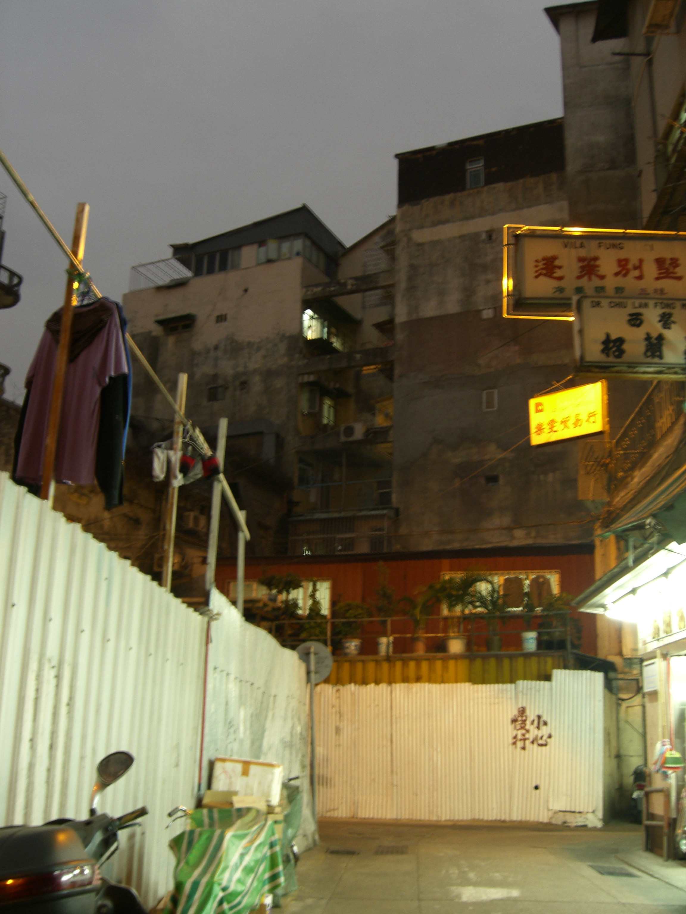 Ruins of "Yan Cheong Pawnshop" in Macau